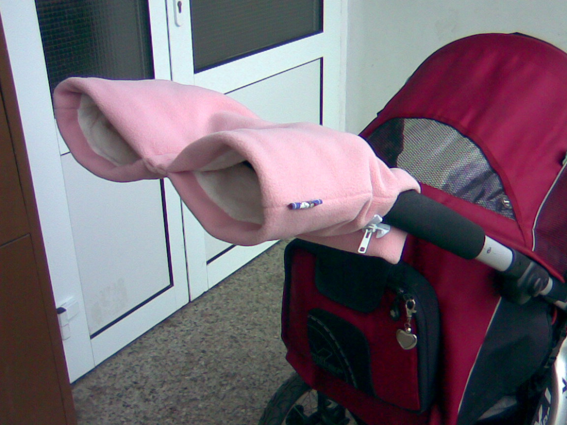 Handwarmer for the stroller. Muff the stroller, pink muff photo mounted on the handle of the stroller.